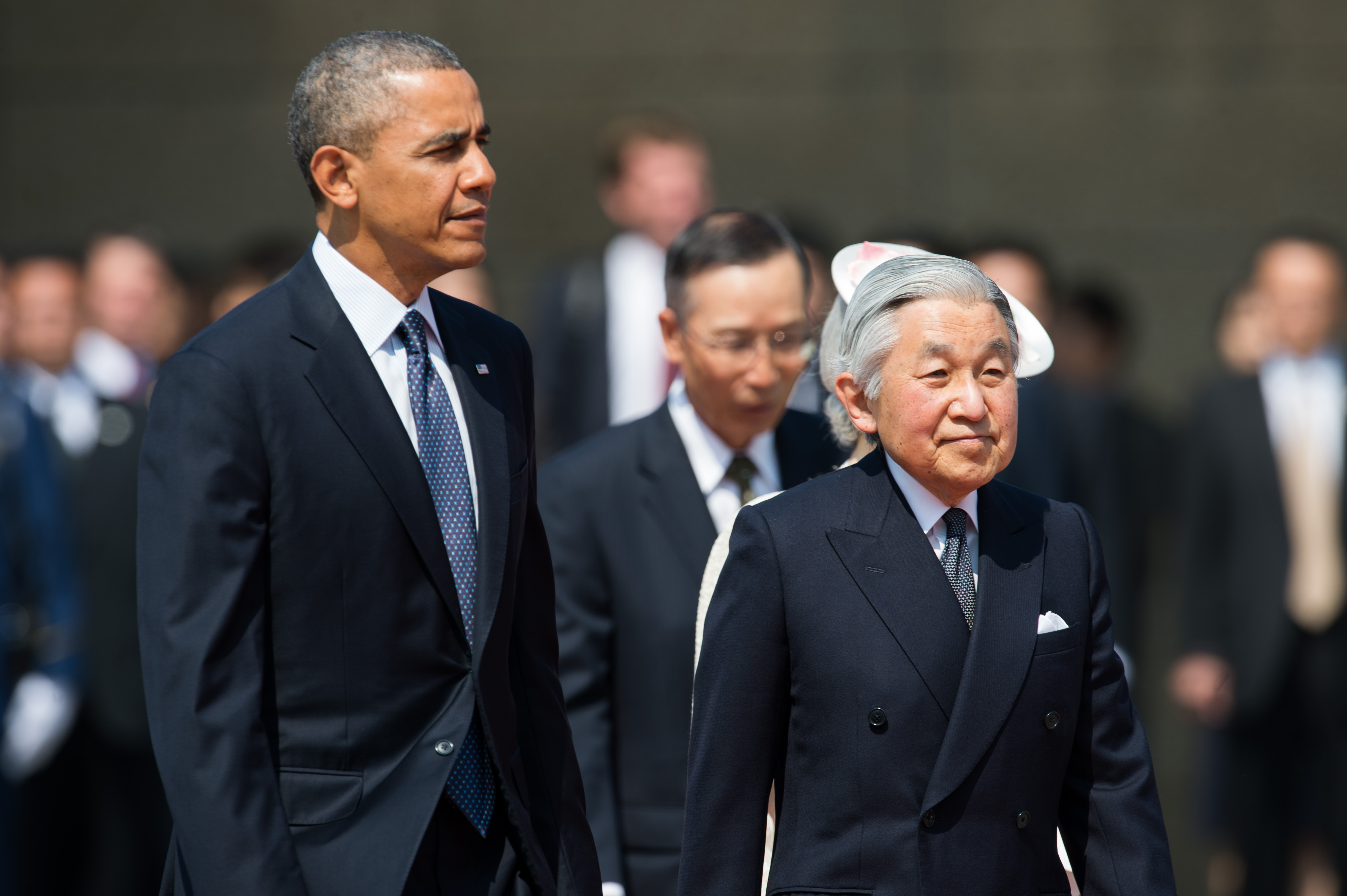 Barack Obama, President, met Emperor Akihito at the Tokyo Imperial Palace in Chiyoda Ward, Tōkyō Metropolis on April 24, 2014.